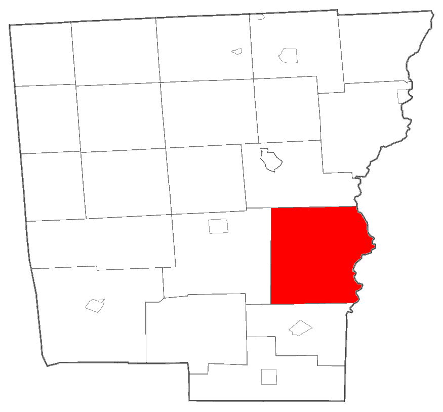 Map of Chenango County highlighting Guilford